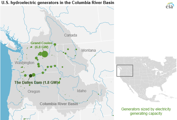 A map showing locations of U.S. hydroelectric generators in the Columbia River Basin. September 28, 2018